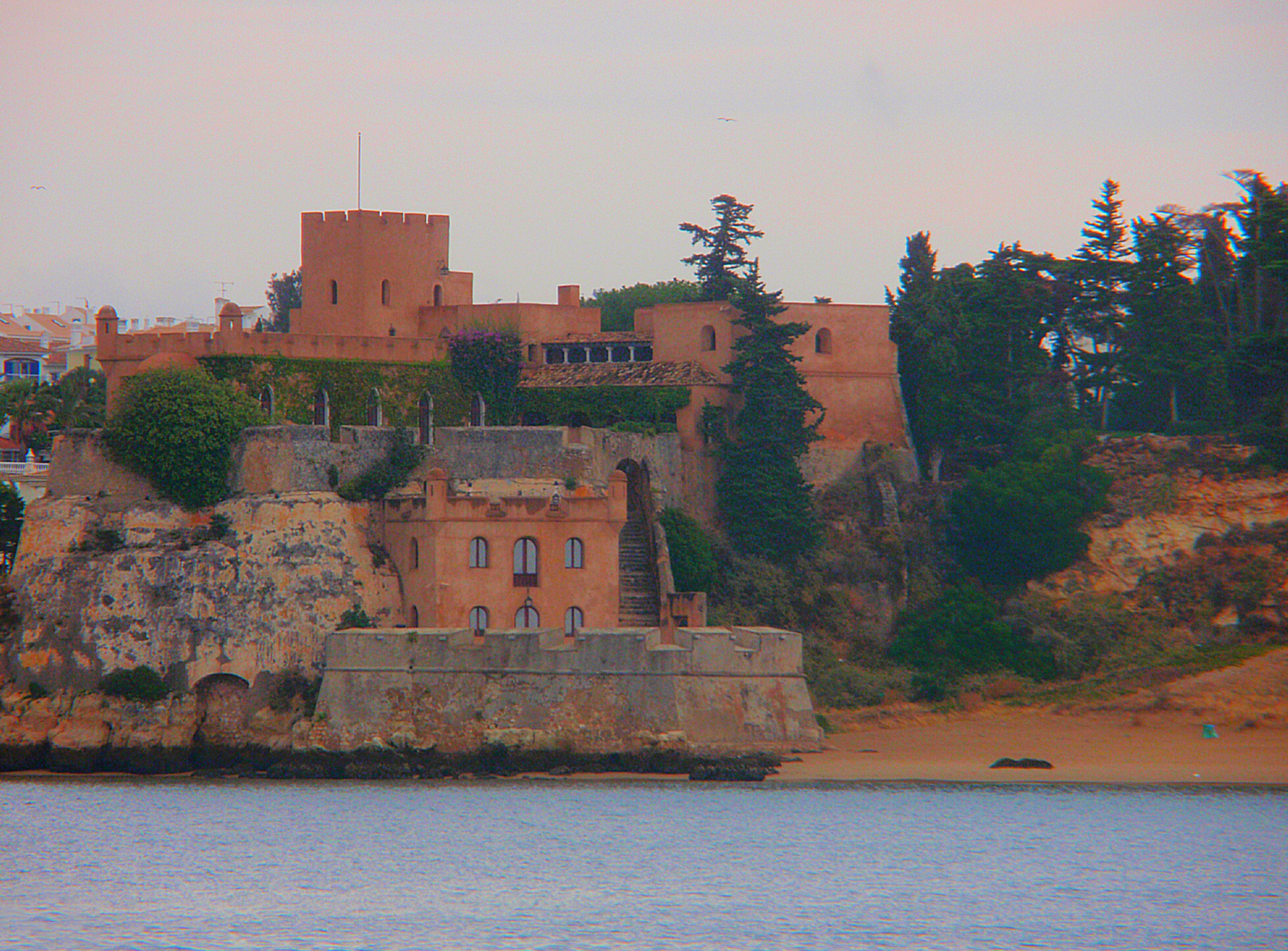 The Fort of São João do Arade, sometimes referred to as the Castle of Arade, is a medieval fortification located near the village Ferragudo, Lagoa, Algarve, Portugal.